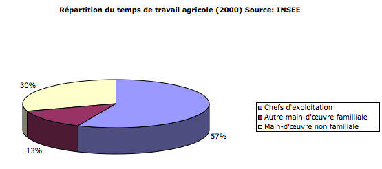 Who works in the Corsican farms?